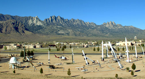 The Missile Park at the White Sands Missile Range Museum.